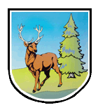 Coat of Arms of Hirschfeld (Sachsen)